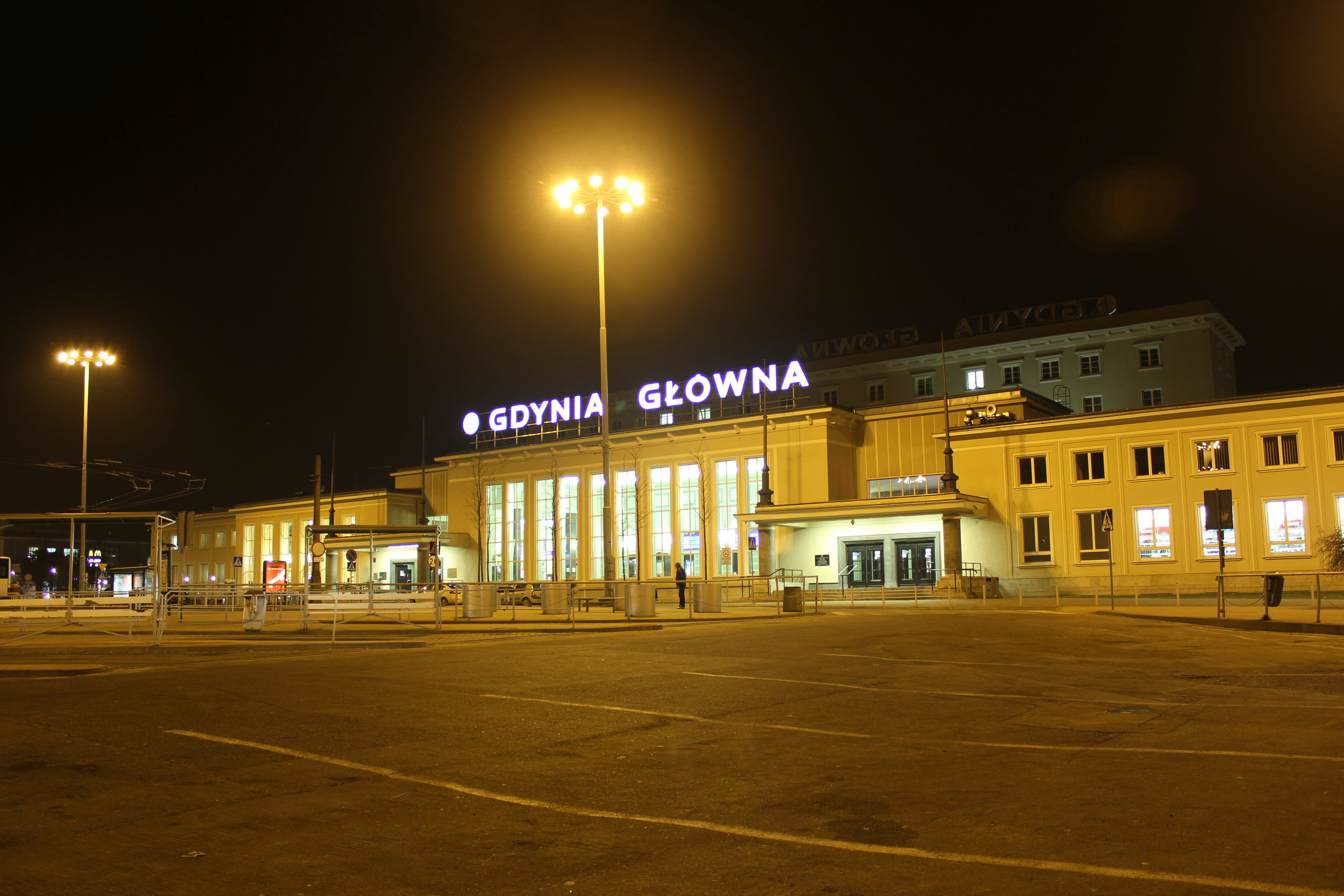 Gdynia - main railway station building